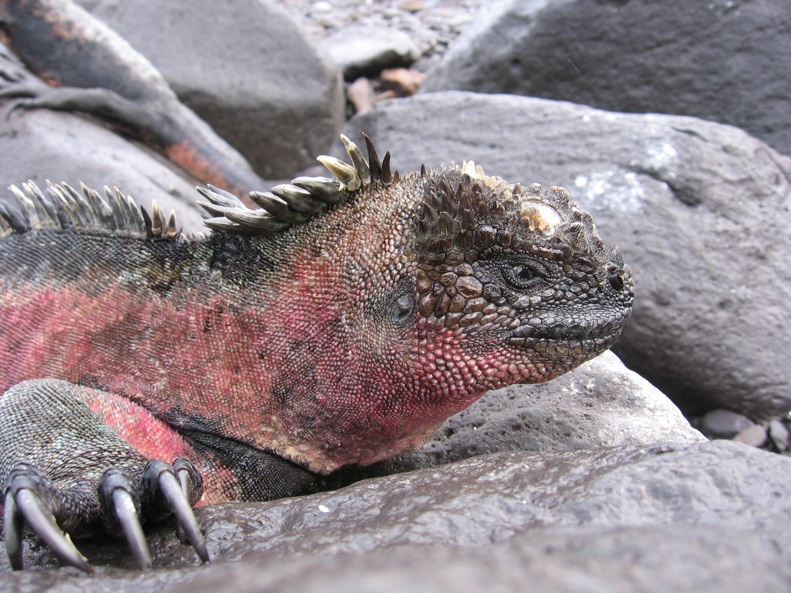 An adult male iguana{has a stick}, Galapagos, Ecuador. Taken by Sputnikcccp, July 2006